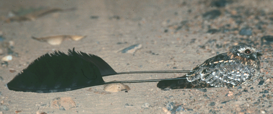 Male Standard-winged Nightjar (Macrodipteryx longipennis). Recorded in Comoé National Park, Ivory Coast.